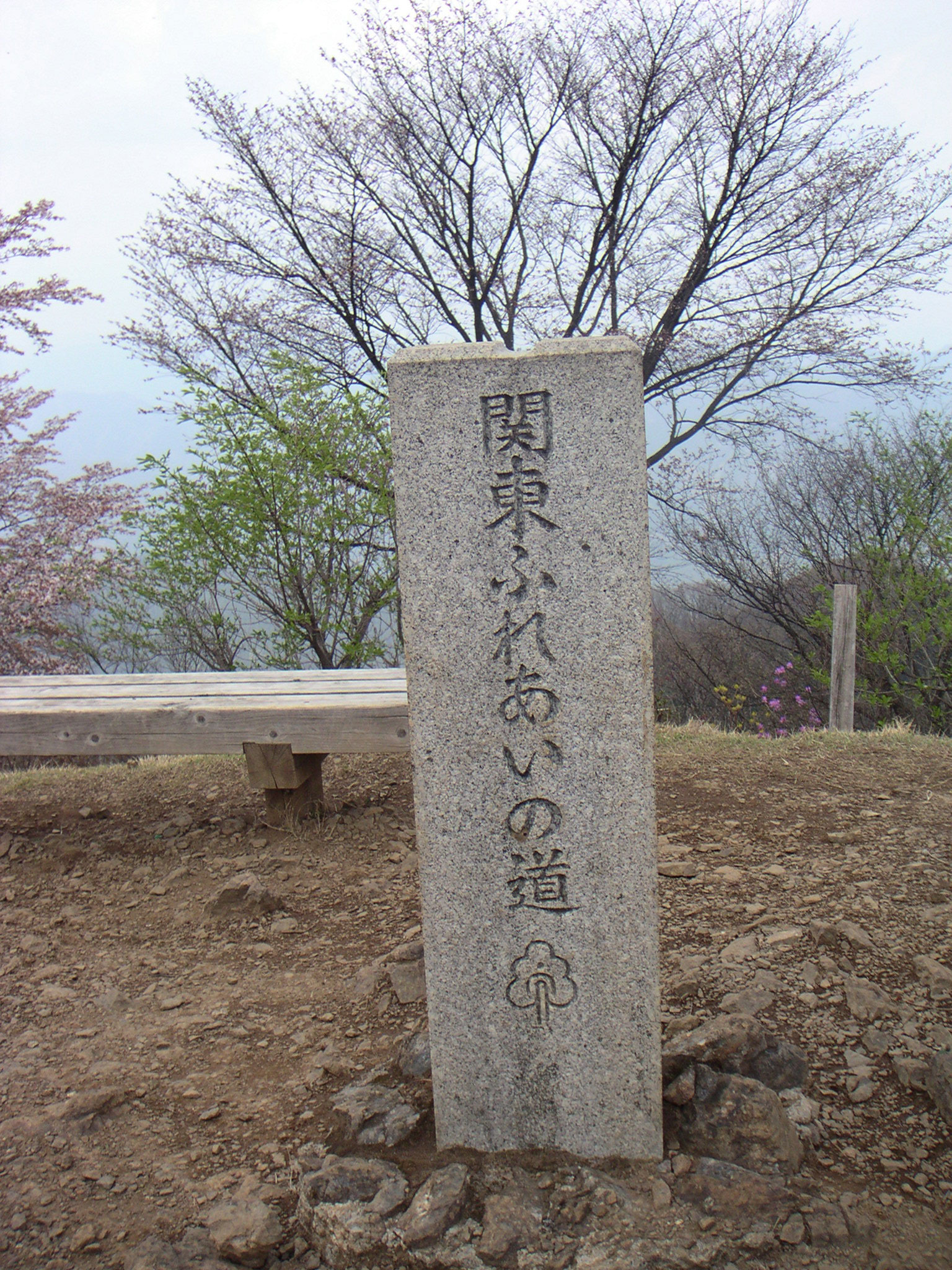 Kantofureainomichi stroll road, Mt. Hinode, Hinode Town